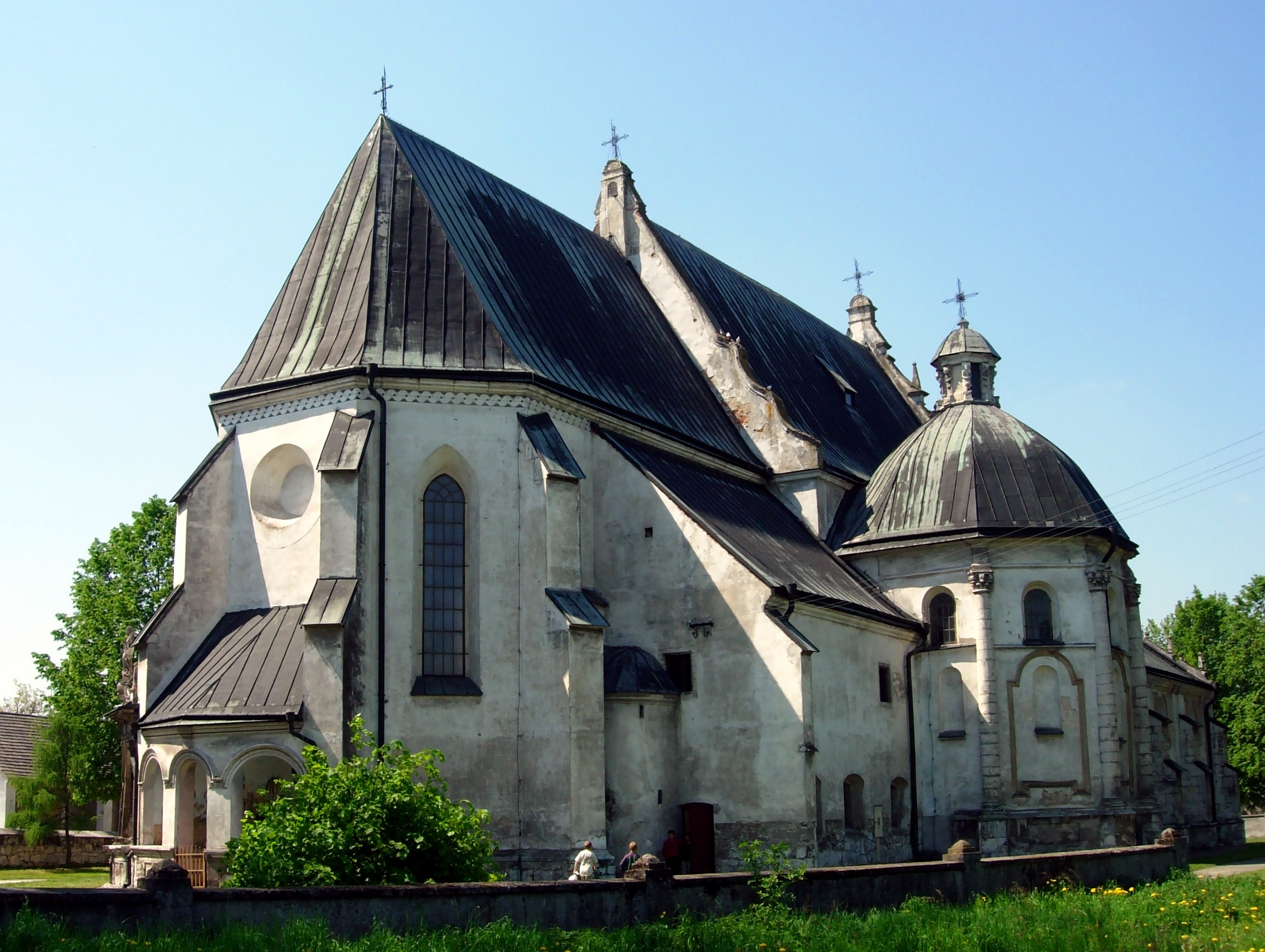 Saint Trinity Church in Nowy Korczyn, Poland